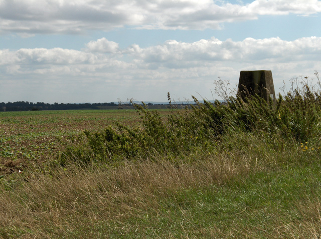 Trig point, Fawley. Altitude 206 metres.